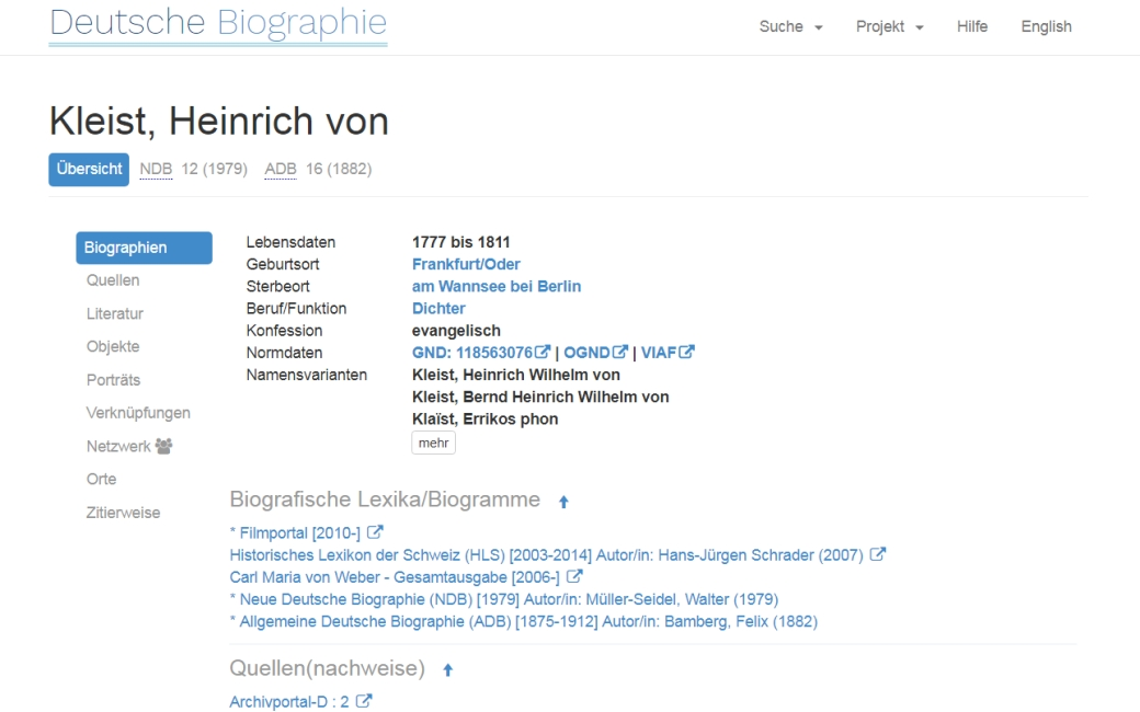 Deutsche Biographie: Screenshot of the website of the German Biography (Browser: Crome).